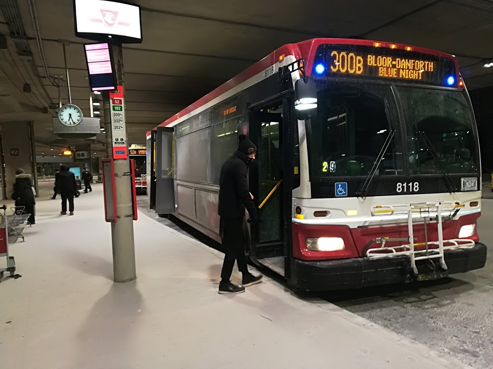 A 300B Bloor-Danforth bus at Pearson Airport